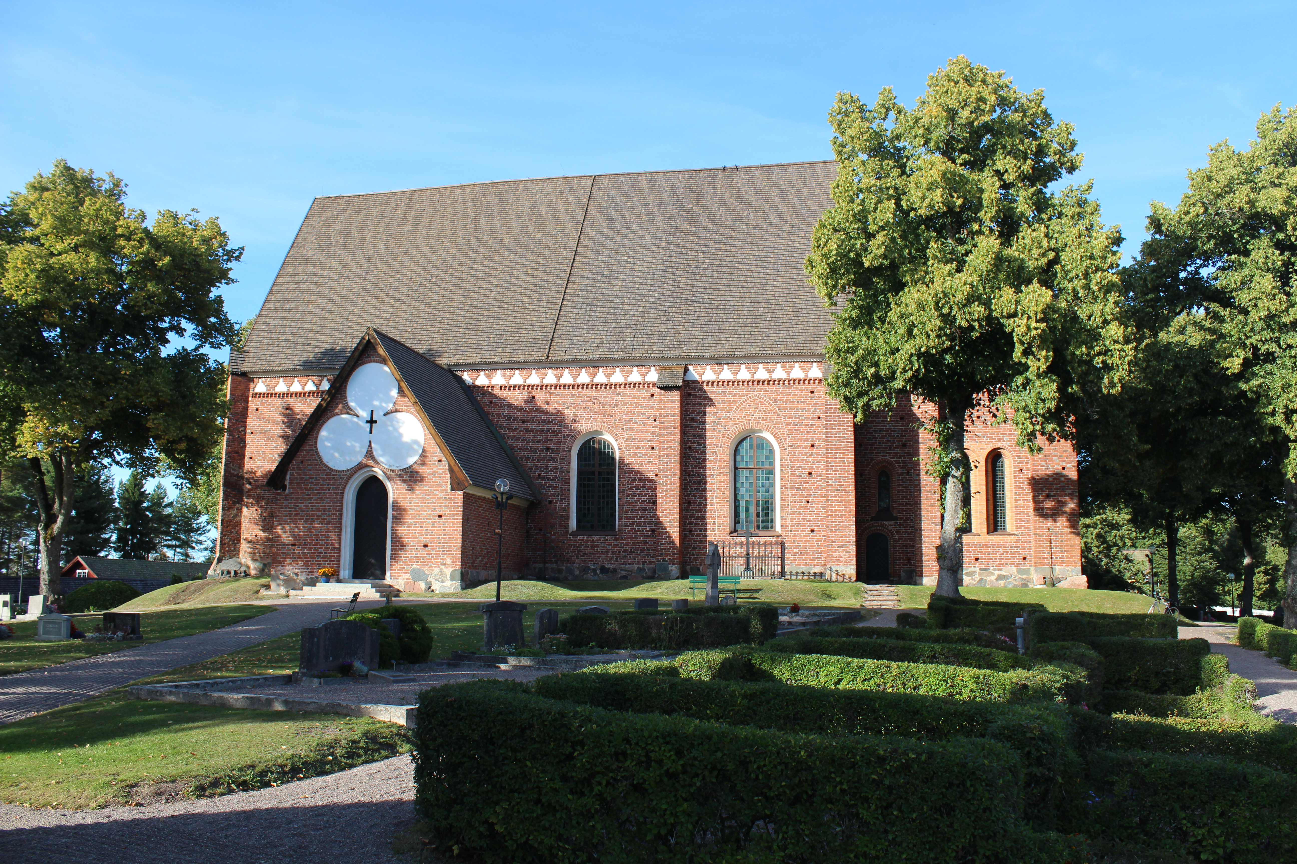 The church Vendel kyrka, Vendel parish, Tierps municipality, Sweden